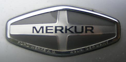 Merkur Scorpio 1990 badge